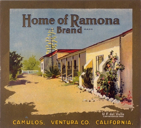 'Home of Ramona' brand's citrus fruit crate label. Citrus growers at Rancho Camulos — in Ventura County, Southern California.